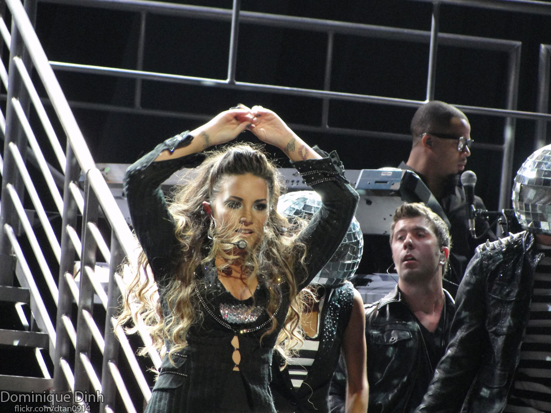 Demi Lovato performing "All Night Long" at Club Nokia in Los Angeles.